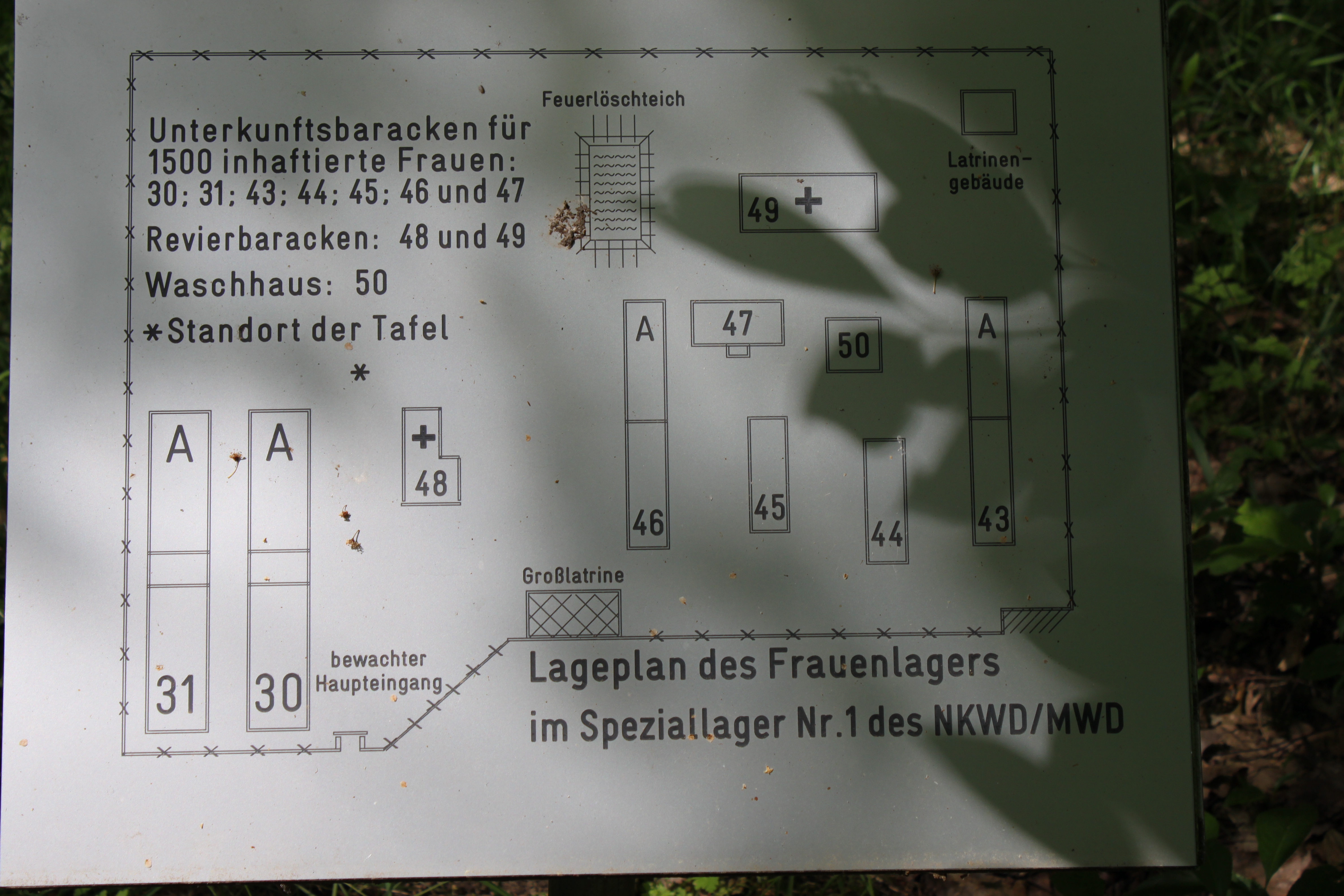 Memorial of the Stalag IVB/Speziallager Nr. 1 Mühlberg/Elbe